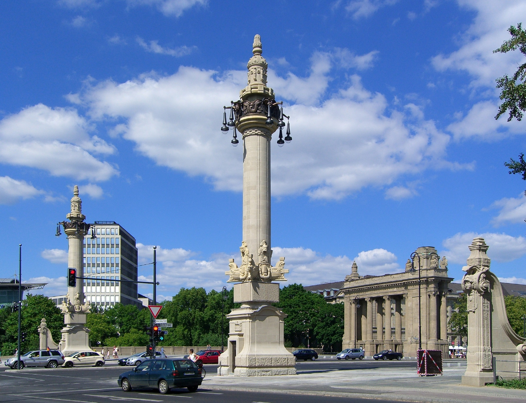 reconstructed candelabra (originals were built between 1905 and 1908; destroyed 1945) at "Charlottenburg Gate" in Berlin.